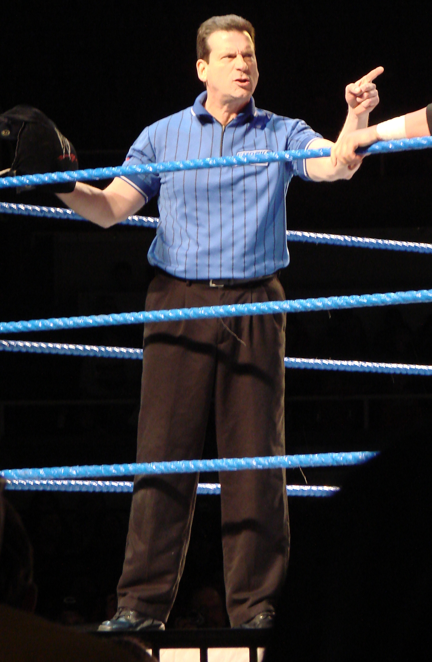 Smackdown Referee Nick Patrick at a Smackdown! Live Event on February 4, 2007 at the Assembly Hall in Champaign.